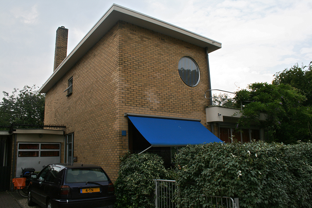 House built by Sybold van Ravesteyn for himself in Utrecht (Prins Hendriklaan 112) between 1932-1934.